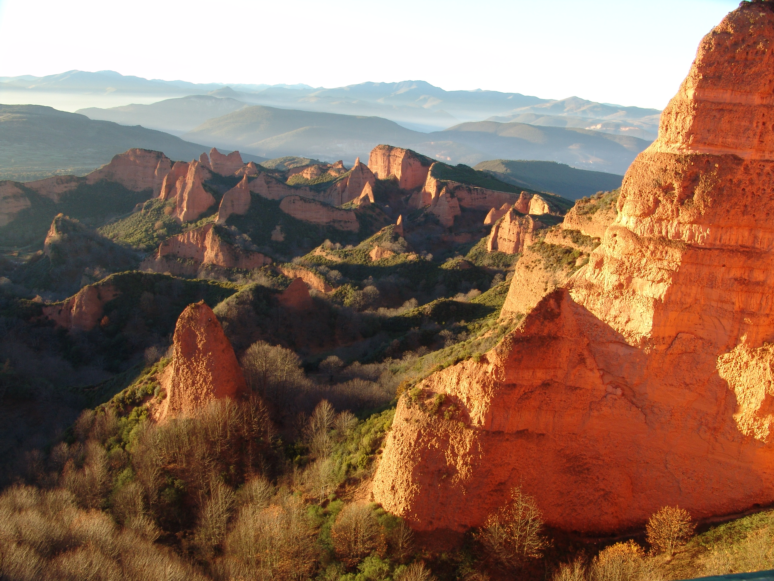 Picture taken by Rafael Ibáñez Fernández in Las Médulas, province of León, Spain, on 11th December, 2005. Original picture with 2.13 MB resolution.